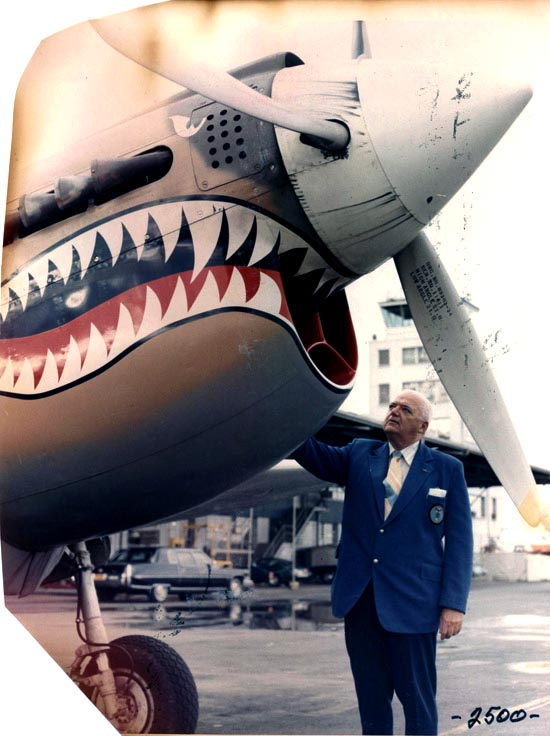 Herbert O. Fisher